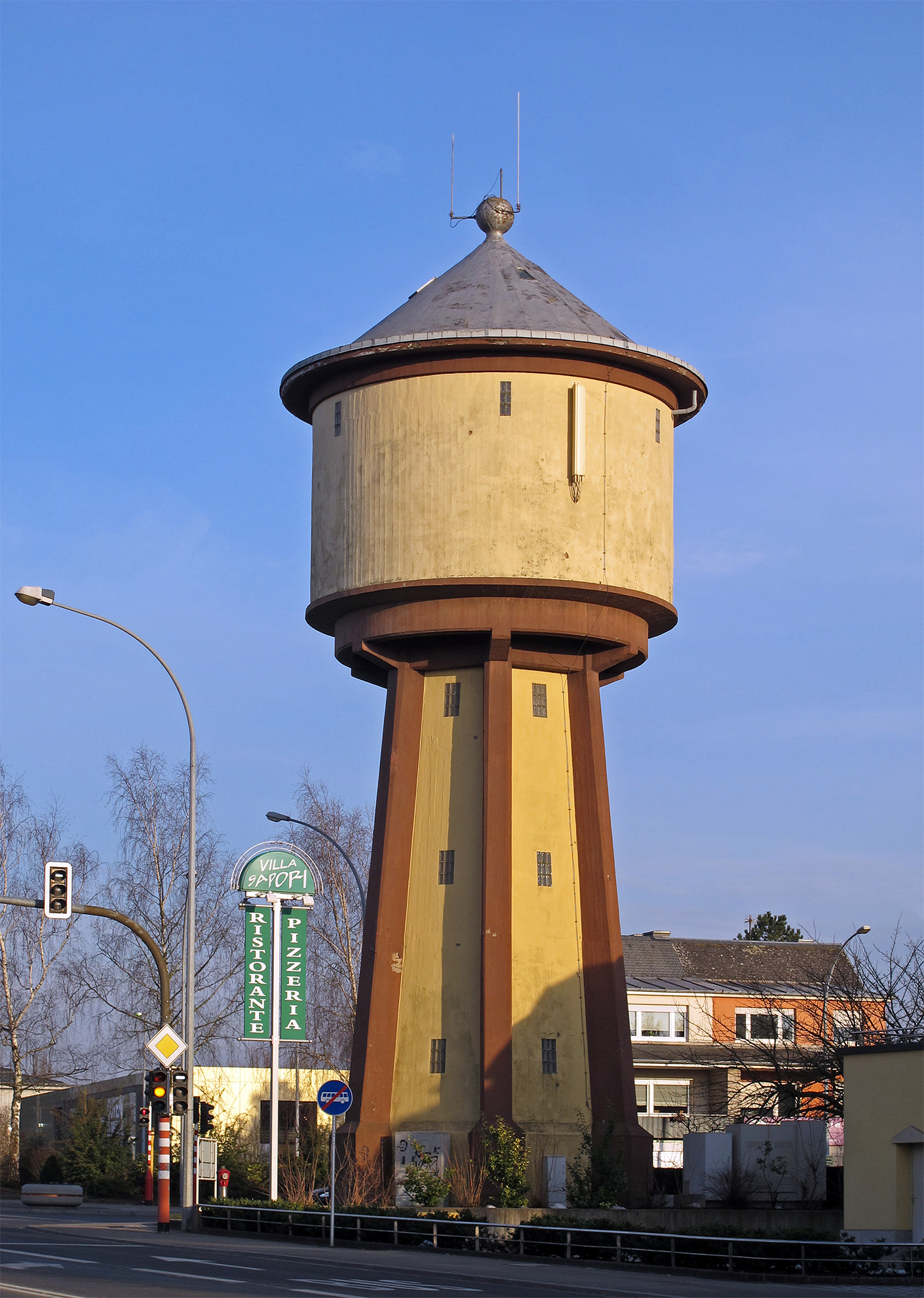 Water tower in Bertrange, Luxembourg